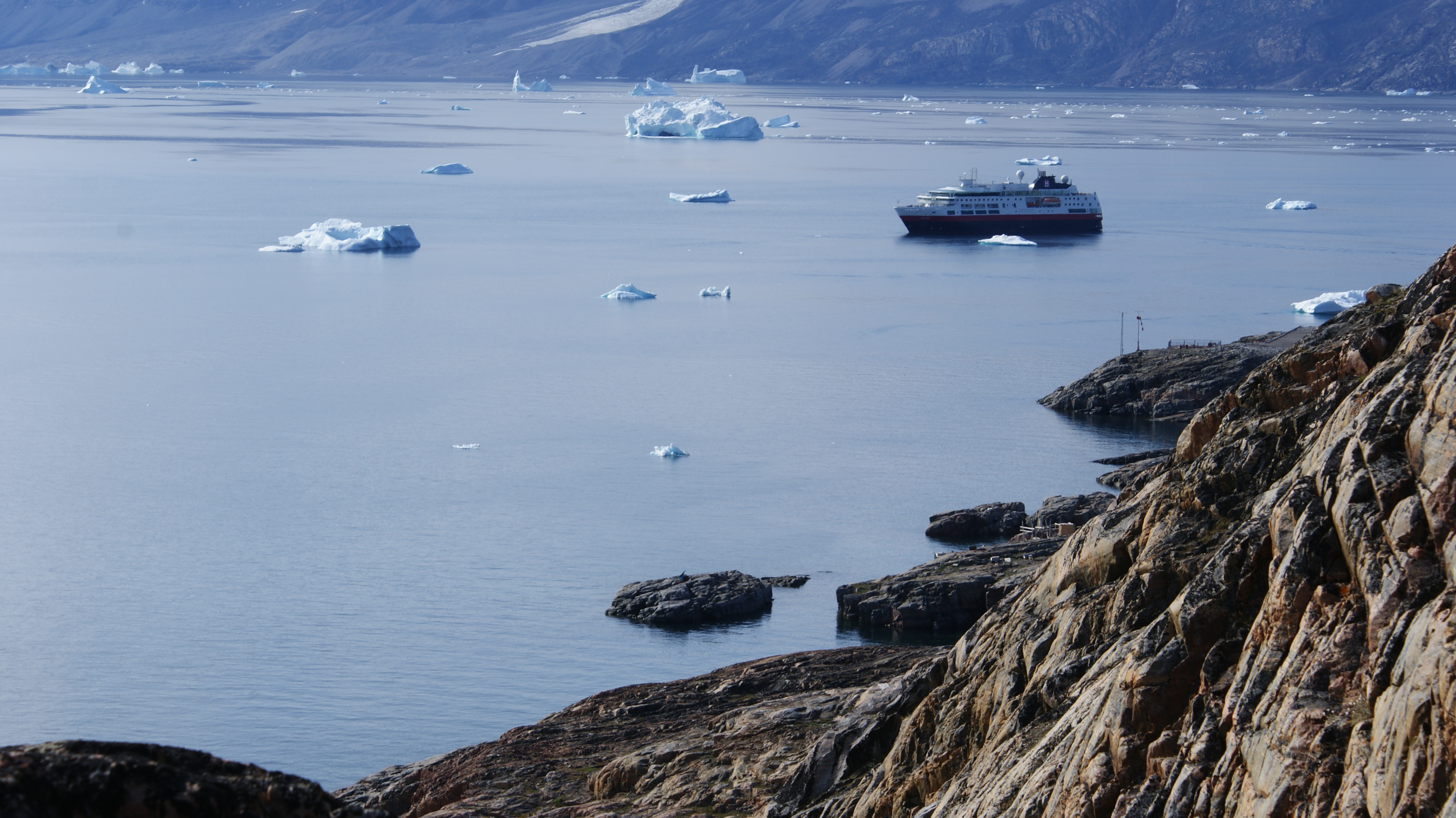 M/S Fram of Hurtigruten moored just off the port in Uummannaq.